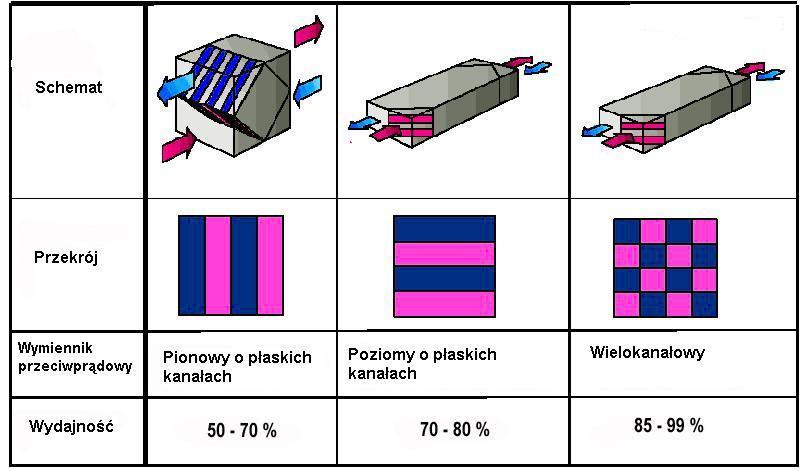 heat exchanger